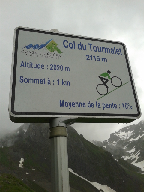 2015 Mountain pass cycling milestone – Tourmalet Luz-Saint-Sauveur